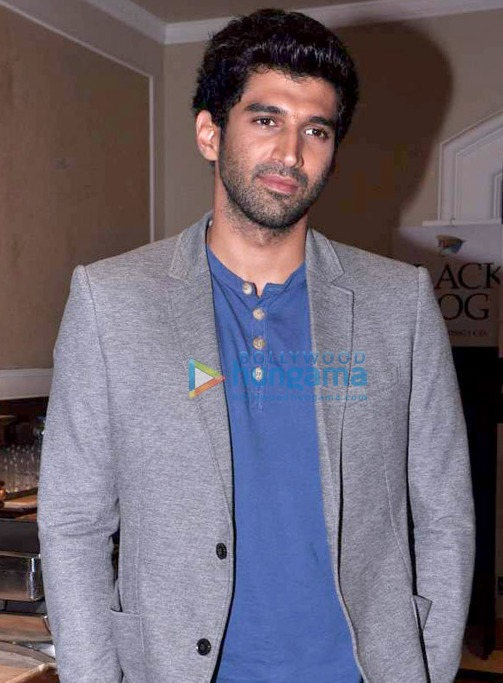 Aditya Roy Kapur at celebs grace Lonely Planet Travel Awards 2013